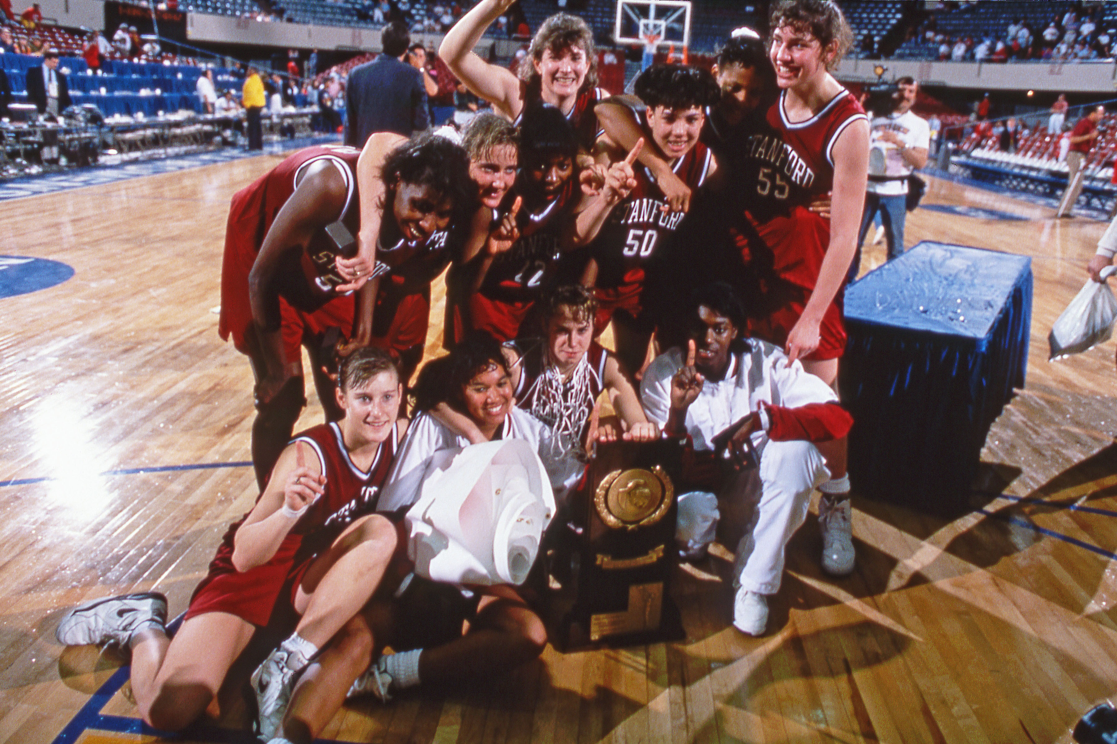 NCAA Women's Basketball 1992 National Championship team, posing for the team picture following the presentation of the championship trophy, April 5, 1992 in Los Angeles, California Val Whiting, Kate Paye, Angela Taylor, Ann Adkins, Rachel Hemmer, Kelly Dougherty, Anita Kaplan, Christy Hedgpeth, Molly Goodenbour and Bobbie Kelsey with the trophy after Stanford's 78-62 win over Western Kentucky in the NCAA Division 1 Women's Basketball Championship in Los Angeles, CA.